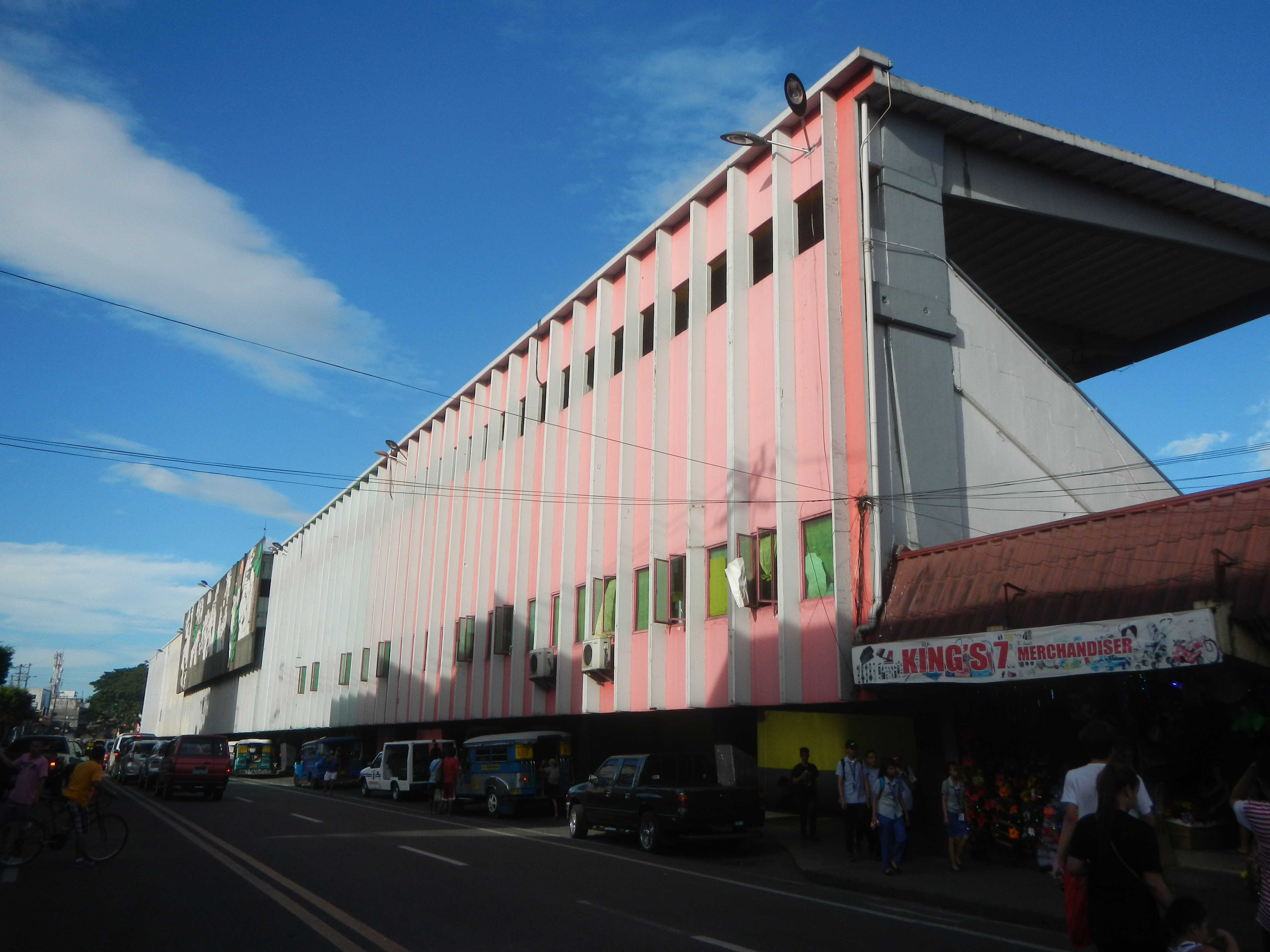 Shoe Avenue Marikina Market Mall Marikina Sports Center Centro Felicidad Amang Rodriguez Memorial Medical Center in the List of barangays of Metro Manila, Barangays of Marikina City Barangay Santa Elena, Marikina Marikina City along W. C. Paz Street corner Shoe Avenue corner A. Bonifacio Avenue 14°38'1"N 121°5'7"E Andres Bonifacio Avenue corner Sumulong Highway connected by Marikina Bridge 14°38'9"N 121°5'35"E Load Limit 20 metric tons K0014+970 K0014+942 K0014+842 I Love Marikina City Welcome Arch (Santo Nino - Jesus de la Pena, Markikina River, A. Bonifacio Avenue) (Notes: Judge Florentino Floro, the owner, to repeat, Donor Florentino Floro of all these photos hereby donate gratuitously, freely and unconditionally all these photos to and for Wikimedia Commons, exclusively, for public use of the public domain, and again without any condition whatsoever).